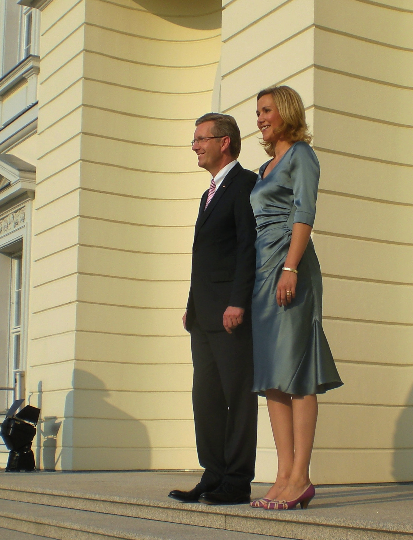 Bundespräsident Christian Wulff and his wife Bettina at Schloss Bellevue on the occasion of the "Sommerfest des Bundespräsidenten" on July 2 2010